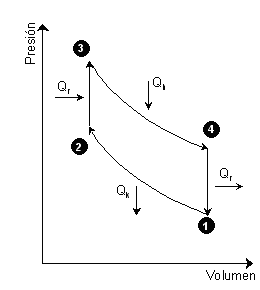 Ciclo Stirling Ideal